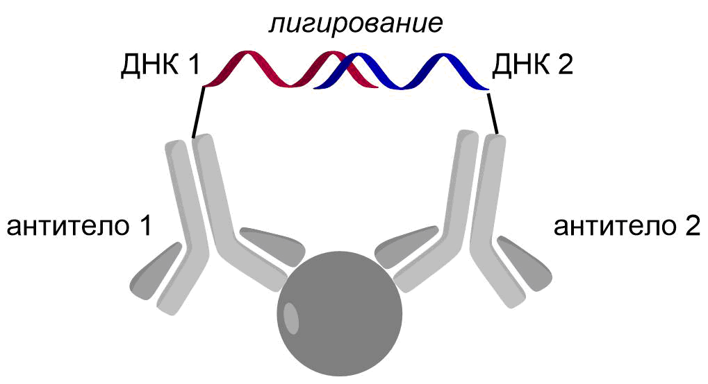 Immuno-PCR proximity ligation